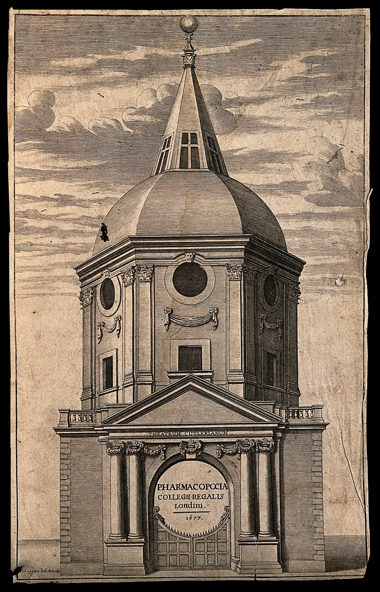 Royal College of Physicians, Warwick Lane, London. Engraving by D. Loggan after himself, 1677. Iconographic Collections Keywords: Robert Hooke; David Loggan; Royal College of Physicians of London